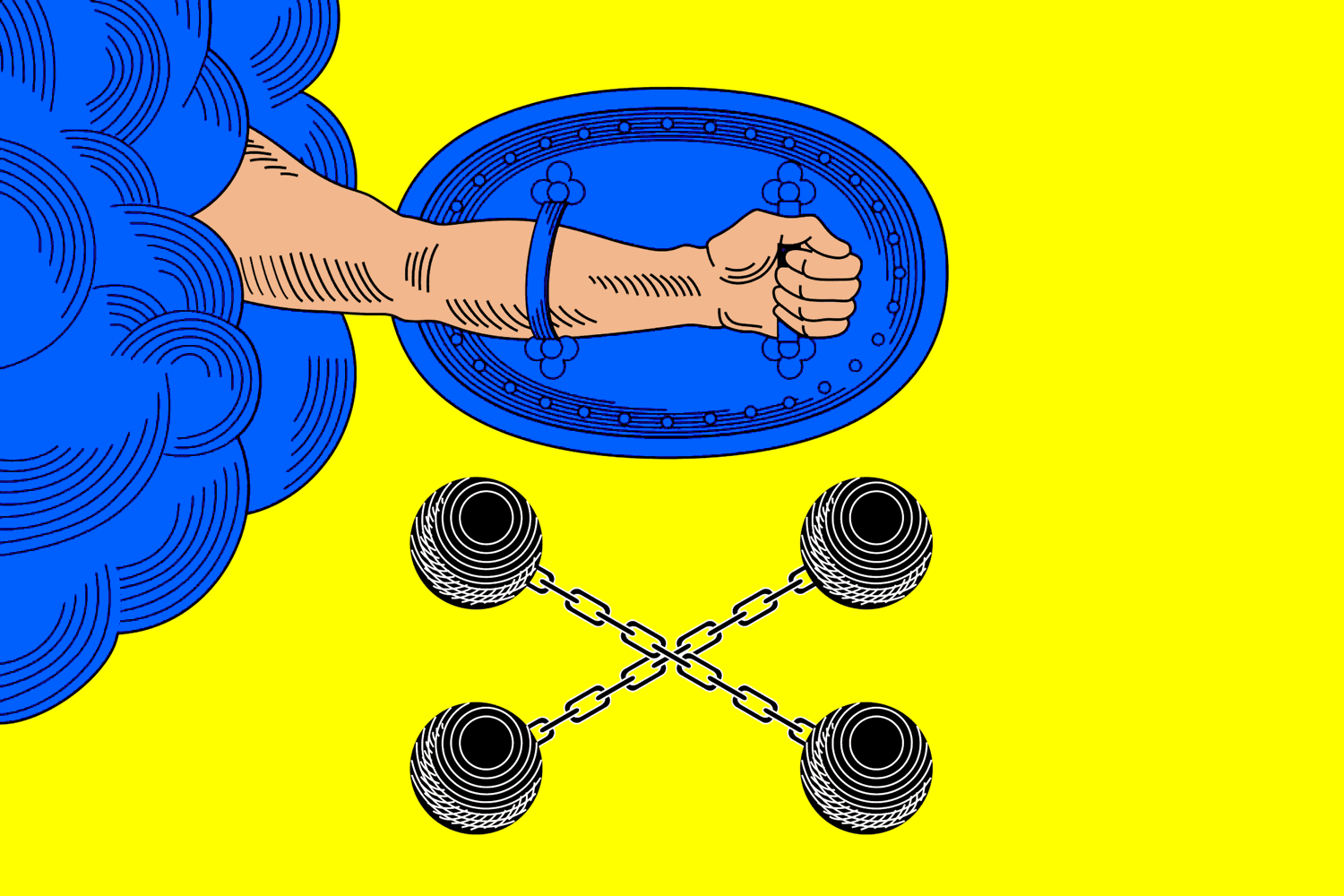 Flag of Olonets urban settlement, Karelia, Russia